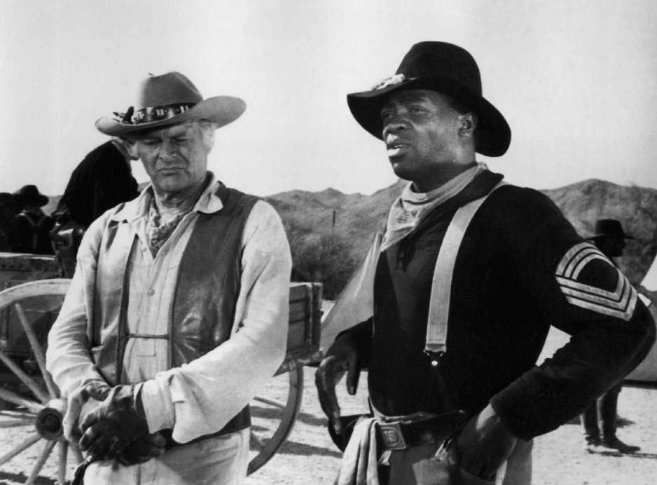 Photo of Leif Erickson as John Cannon and Yaphet Kotto as the leader of an all African-American group of cavalry soldiers from the television program The High Chaparral.